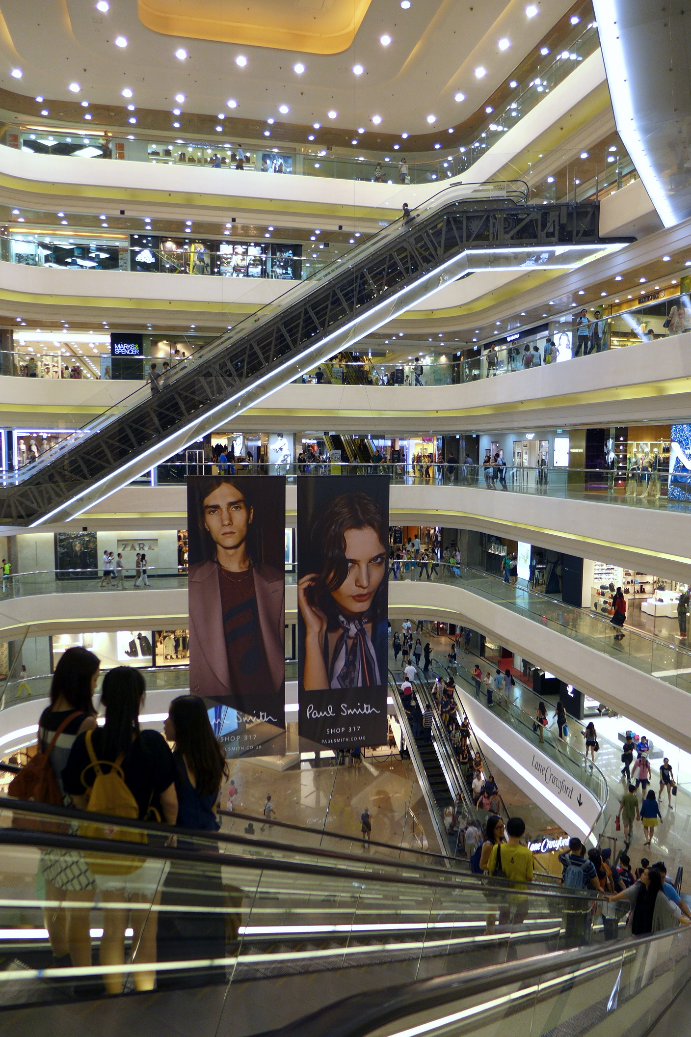 HK Times Square Main Atrium